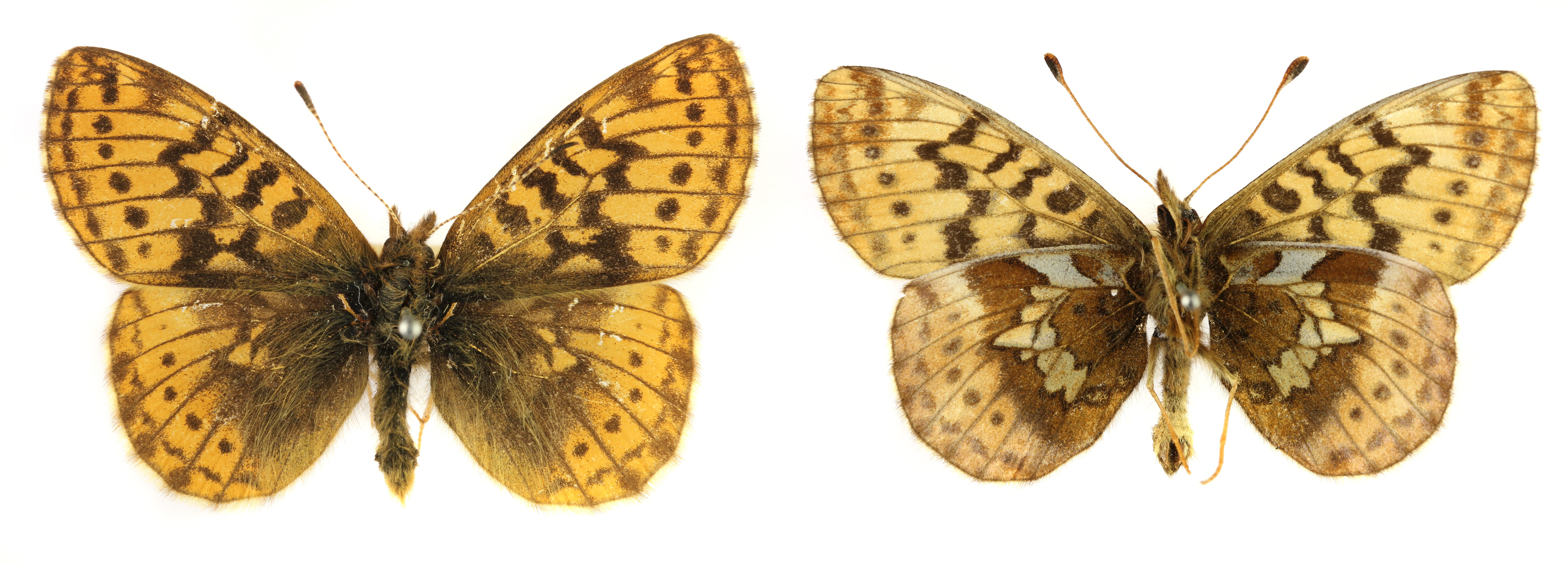 Boloria frigga insect collections SLU, Uppsala